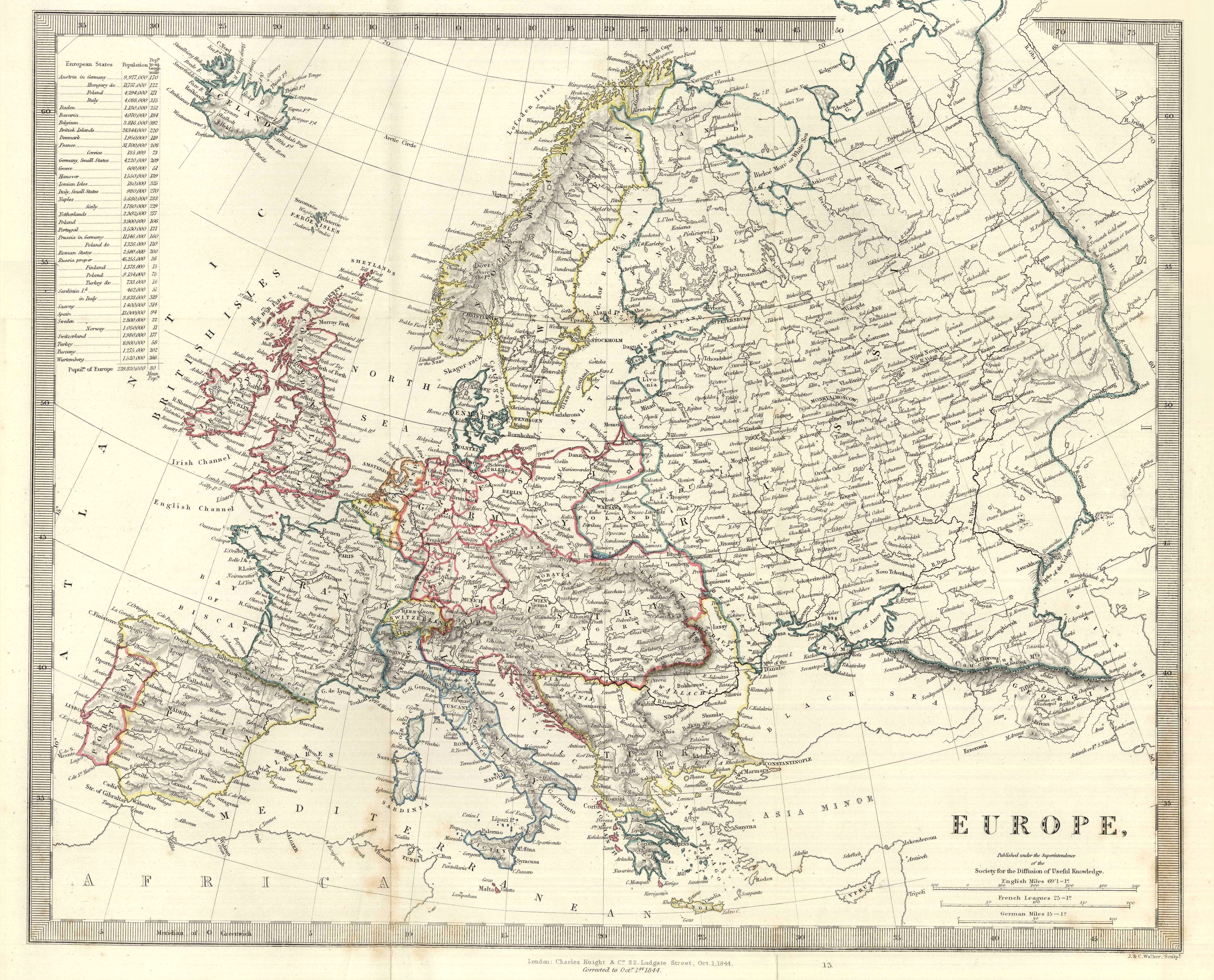 Europe, Published under the Superintendence of the Society for the Diffusion of Useful Knowledge. London: Charles Knight & Co. 22 Ludgate Street, Oct. 1, 1844.